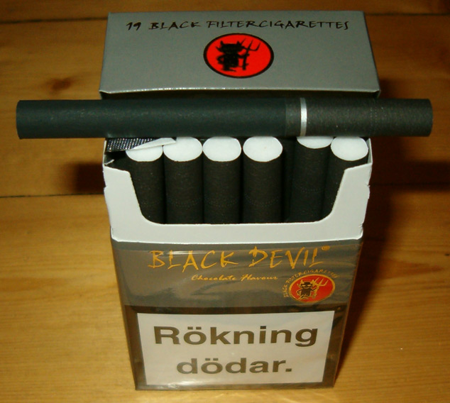 Black Devil Cigarettes, Chocolate Flavour